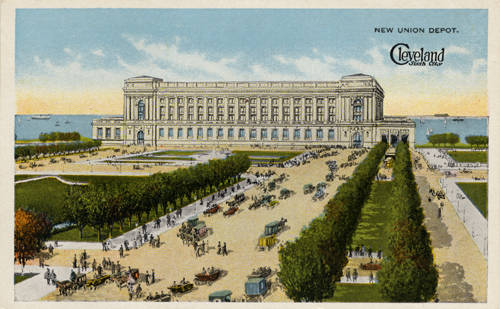 New Union Depot plan, Union Terminal was built instead, created prior to referendum for Terminal Tower, January 6, 1909